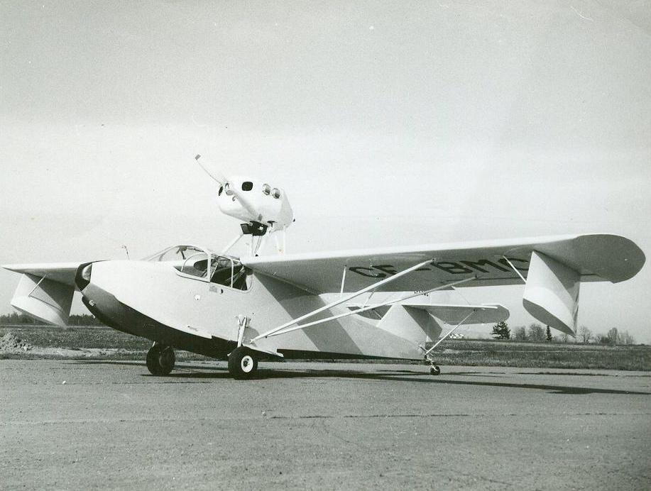 Volmer Jensen Sportsman. Homebuilt amphibious aircraft. This example is modified from original by having tractor motor, spray skirts, soft nose and opening split windshield.